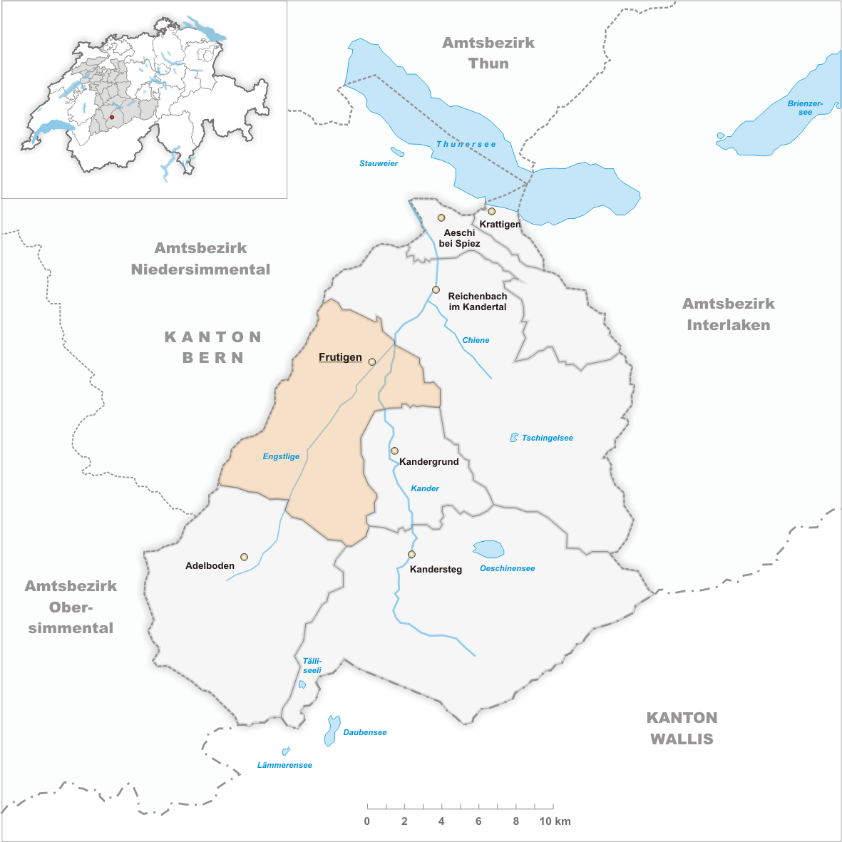 Municipality Frutigen